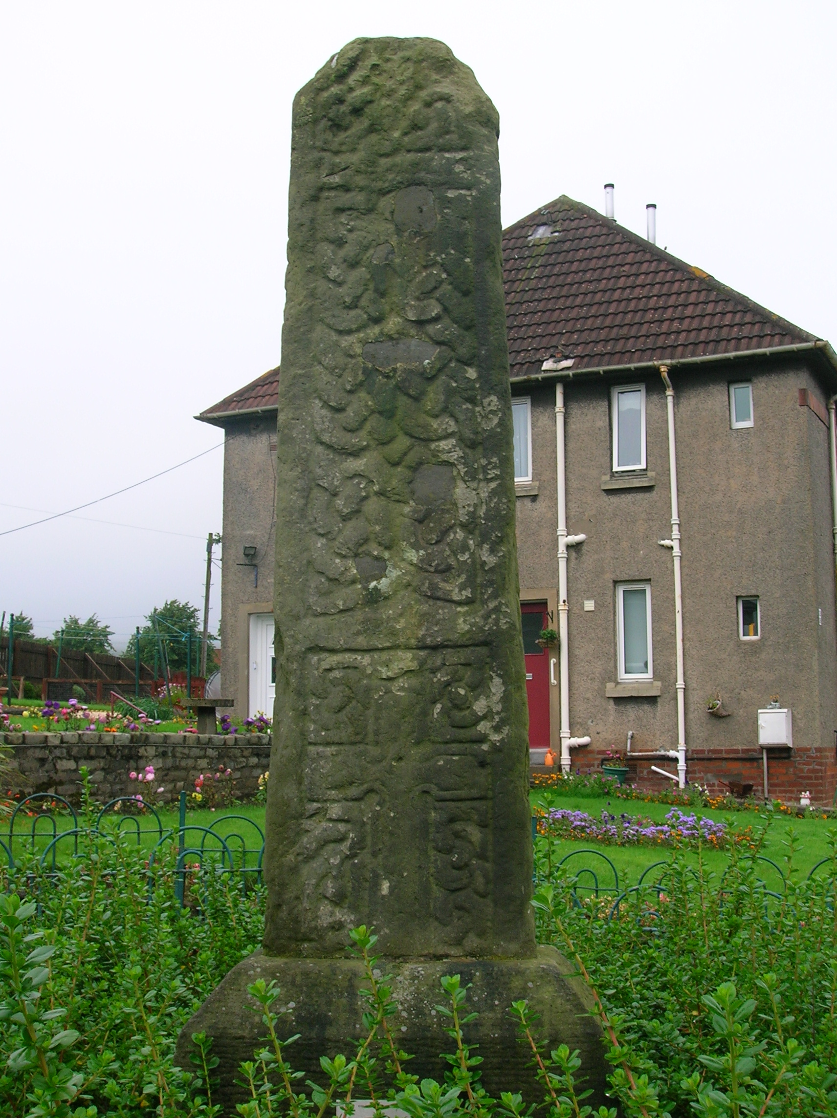 Arthurlie Cross, Arthurlie, Barrhead, Renfrewshire, Scotland.